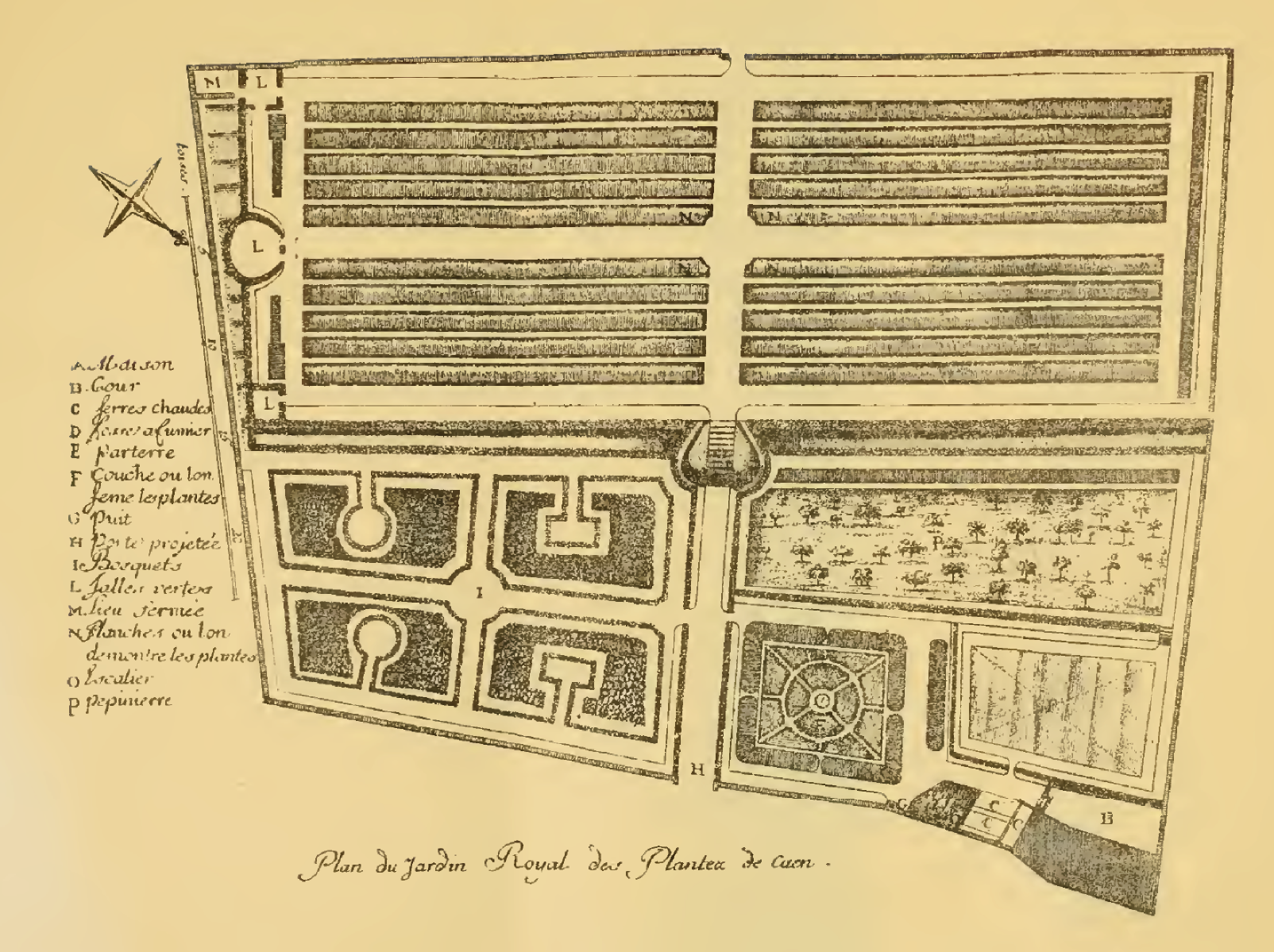 map of the botanical gardens of Caen in 1781